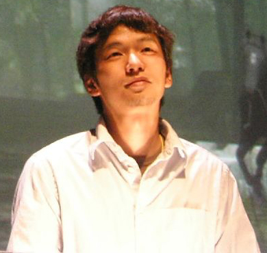 Video game designer Fumito Ueda.